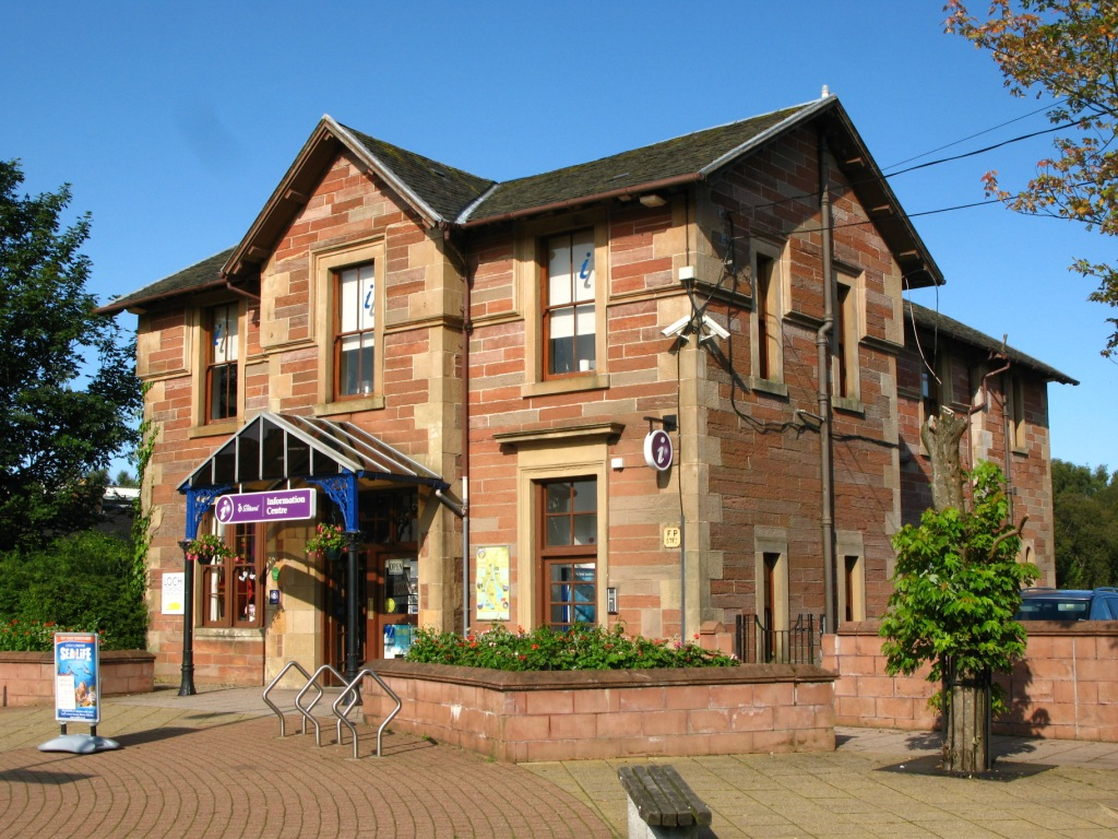 The tourist information centre at Balloch which used to be the railway station's offices.